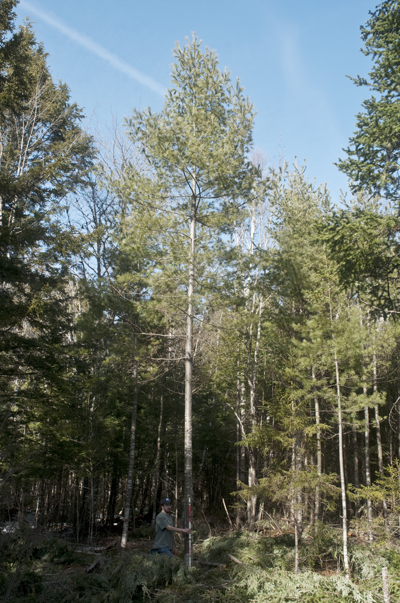 An eastern white pine after competing trees have been removed. The branches have been pruned to 10 feet to produce knot-free lumber.